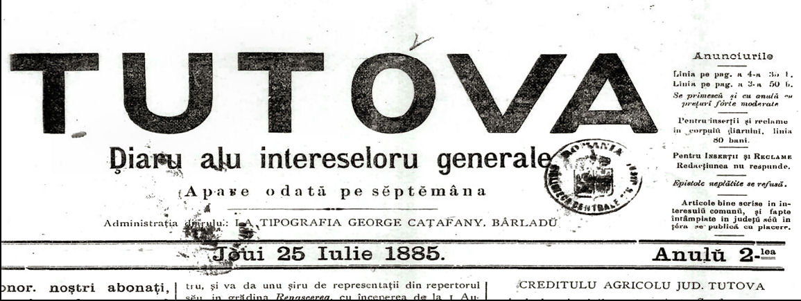 Logo of the Romanian newspaper Tutova, as used in 1885